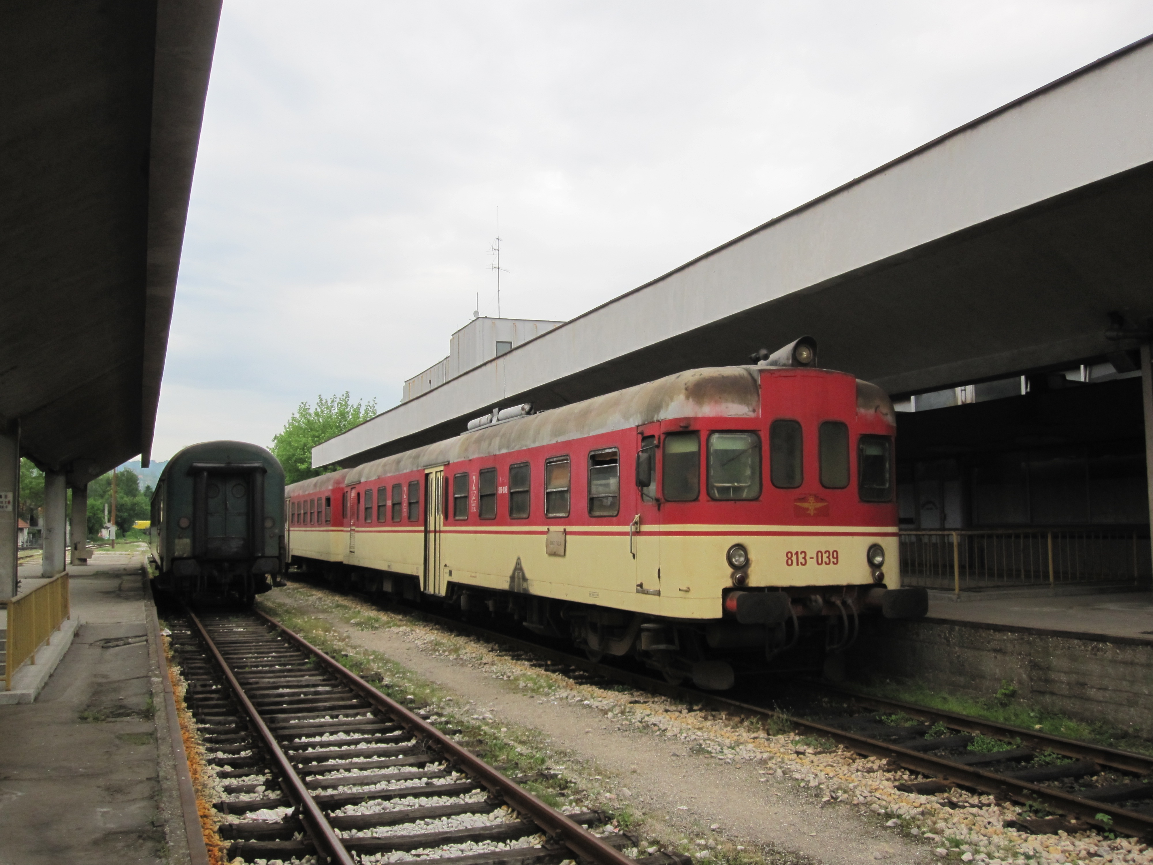 This was bought (or donated?) from Slovenian Railways (SŽ) and is the regular working on the line from Tuzla to Doboj. The unit is owned by ŽRS, with the line changing ownership part way along. As a result the conductor on the train has to work out two separate fares for the ticket on the train!